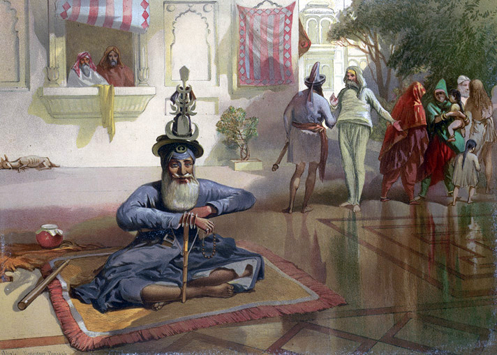 "Akalis at the Holy Tank, Umritsar," a chromolithograph by William Simpson, 1867* (BL)